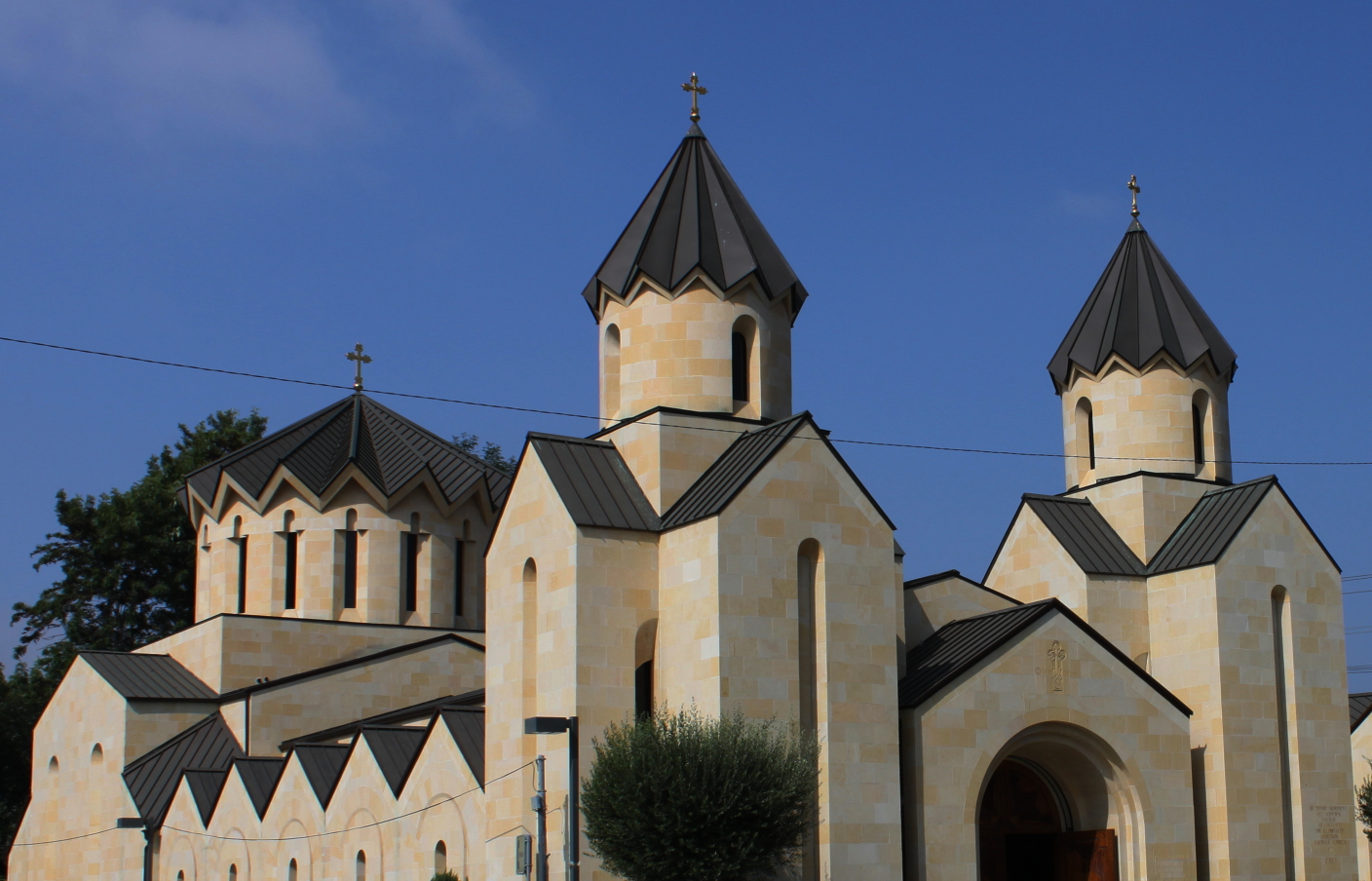 The Saint Gregory the Illuminator Armenian Catholic Church in Glendale, California. Built in 2001.